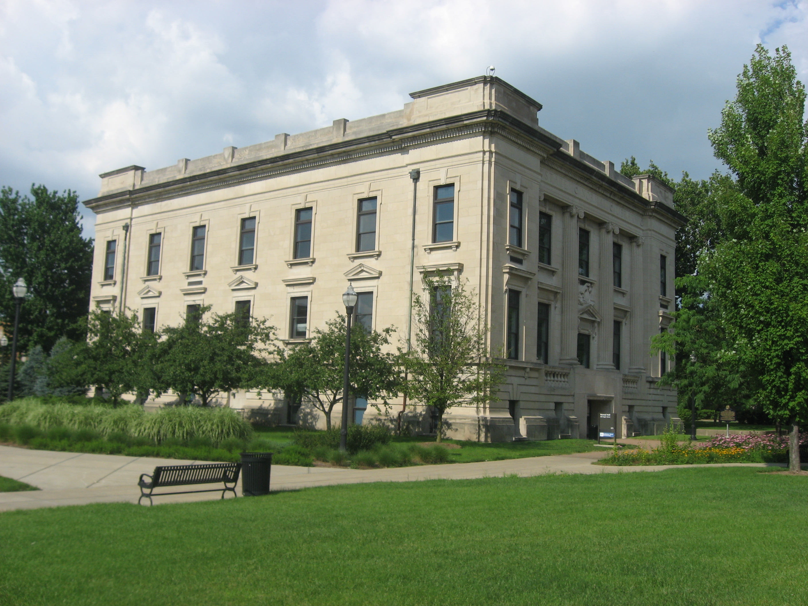 Front and western side of the State Normal Library, located on the campus of Indiana State University in Terre Haute, Indiana, United States. Built in 1907, it is listed on the National Register of Historic Places.